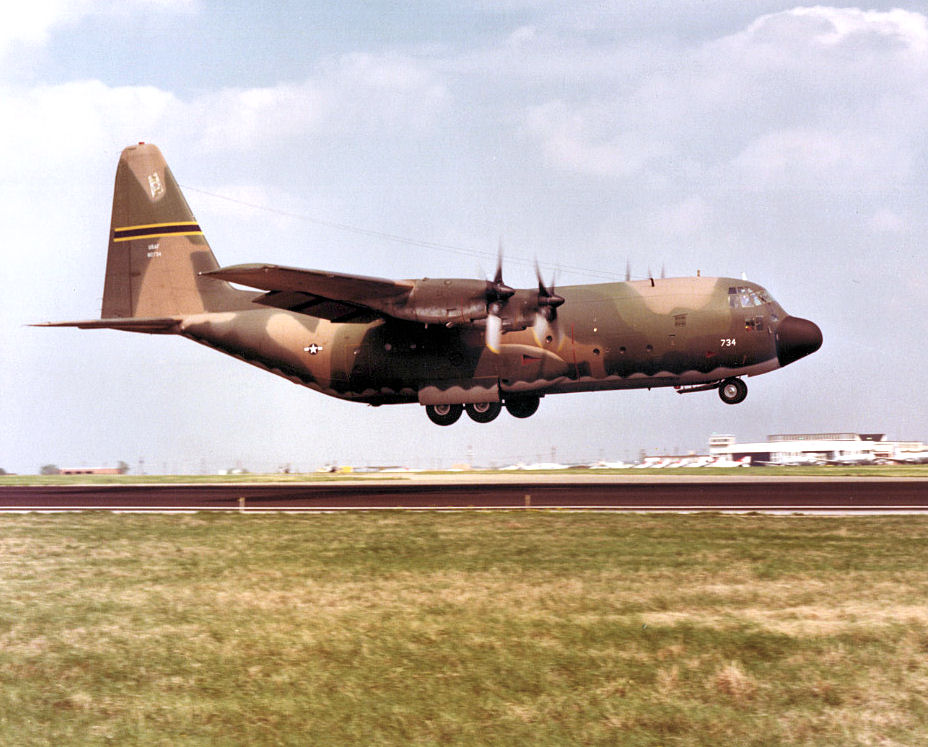 181st Tactical Airlift Squadron Lockheed C-130B-LM Hercules 58-0734 Was converted to a WC-130B and back to C-130B. Was damaged in nose and fuselage and was repaired in 1962 using parts from 58-0745. Retired to AMARC as CF0141 Nov 23, 1993. Later sold to South African Air Force as 409